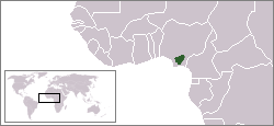 Location of Igboland